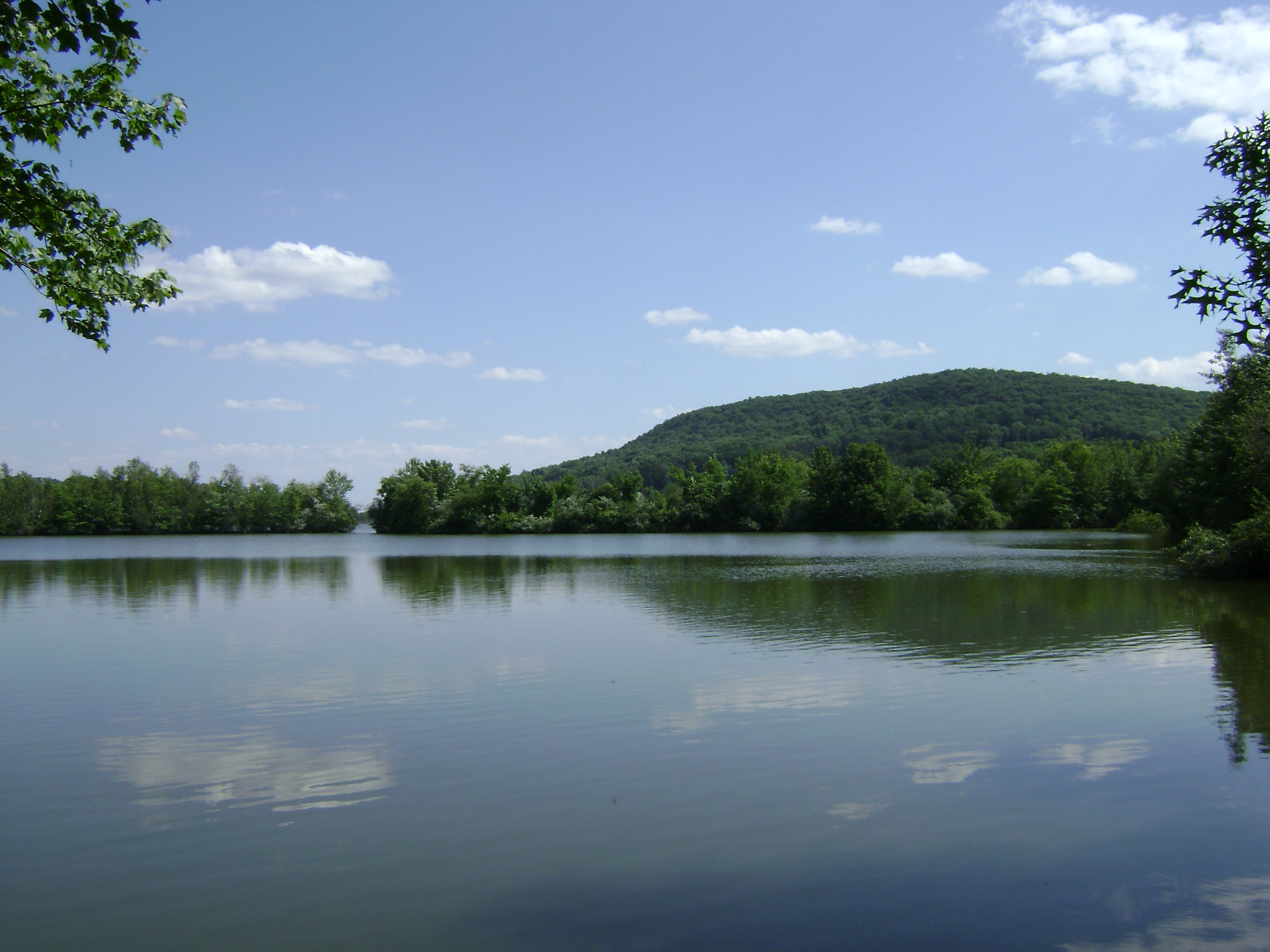 View of High Mountain (highest peak of the Watchung Mountains) and the former Haledon Reservoir in Franklin Lakes Nature Preserve, a 147 acre public nature reserve in Franklin Lakes, New Jersey, USA.